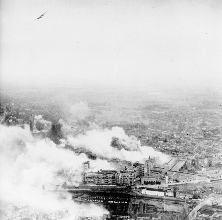 RAF aircraft over the Philips works while it burns during the Eindhoven raid.